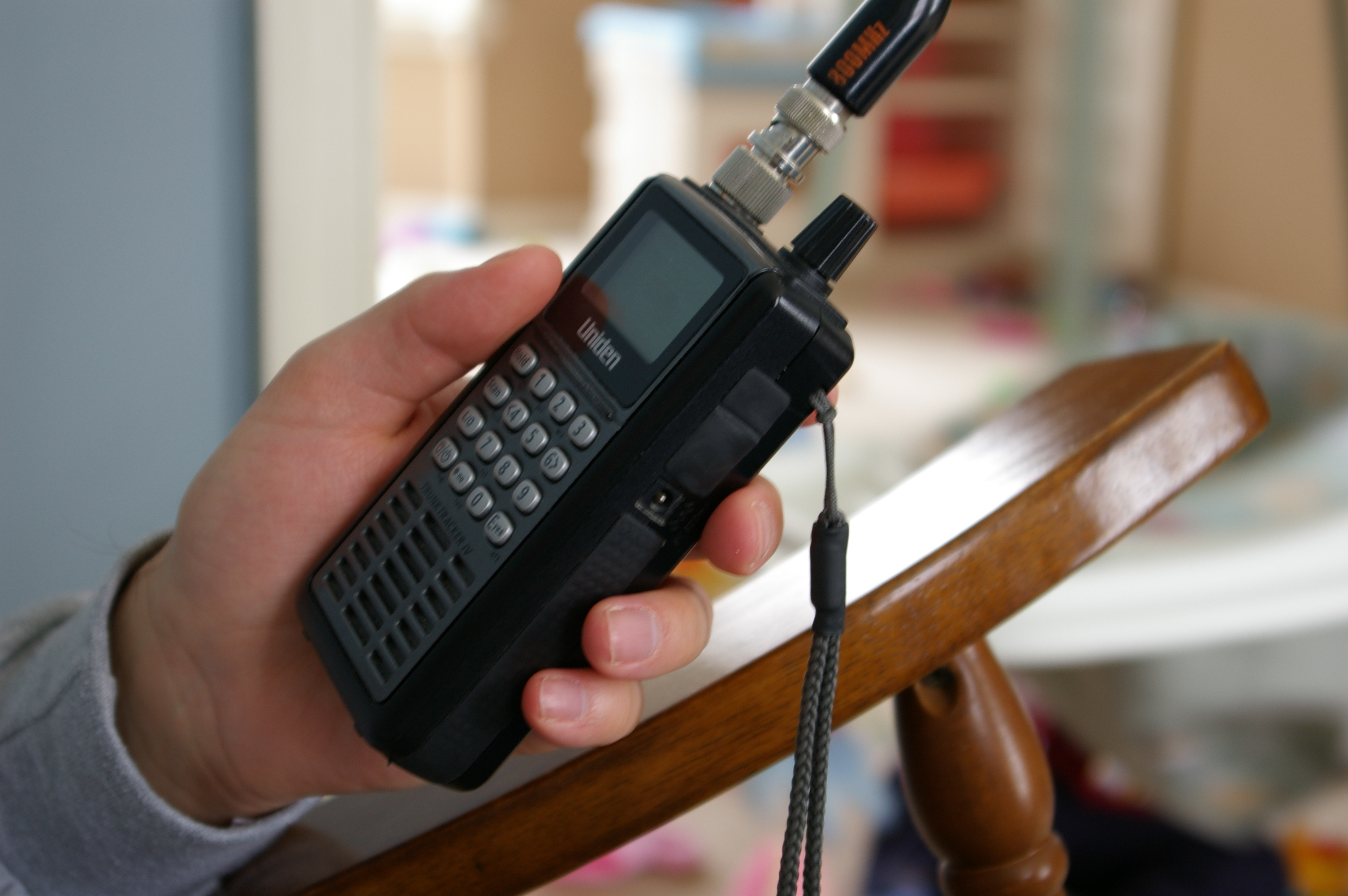 Photo of a Uniden BCD396T handheld trunktracking scanner with an optional 800MHz antenna. I took this photo in February of 2007 with a Pentax K100D digital SLR camera. MamaGeek (talk/contrib) 12:27, 15 March 2007 (UTC) The Uniden UBC3500XLT is also similar in appearance.